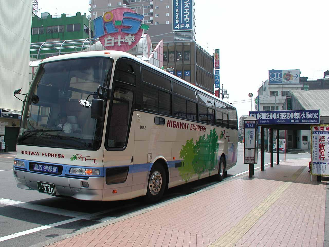 Marronnier Shinjuku arrived at Utsunomiya station. Model: Mitsubishi Fuso Aero Queen I KL-MS86MP License plate: TGU200 KA-220 Place: JR Utsunomiya station west: Tochigi, Japan